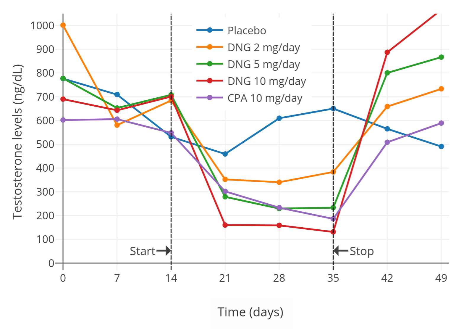 Levels of testosterone (ng/dL) with 2, 5, or 10 mg/day dienogest, 10 mg/day cyproterone acetate, or placebo in healthy young men. There were 5 men in each group. Levels of testosterone decreased by 66 ± 4%, from 600 ± 150 ng/dL to 185 ng/dL (SD not given). Testosterone levels were determined using Delfia fluoroimmunoassay. Source of the values: (May 2002). "Twenty-one day administration of dienogest reversibly suppresses gonadotropins and testosterone in normal men". J. Clin. Endocrinol. Metab. 87 (5): 2107–13. PMID 11994349.